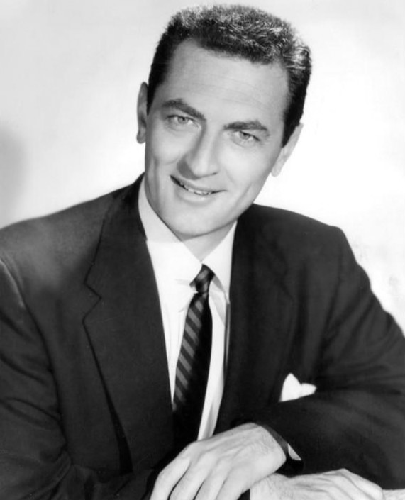 Publicity photo of game show host Ralph Story.